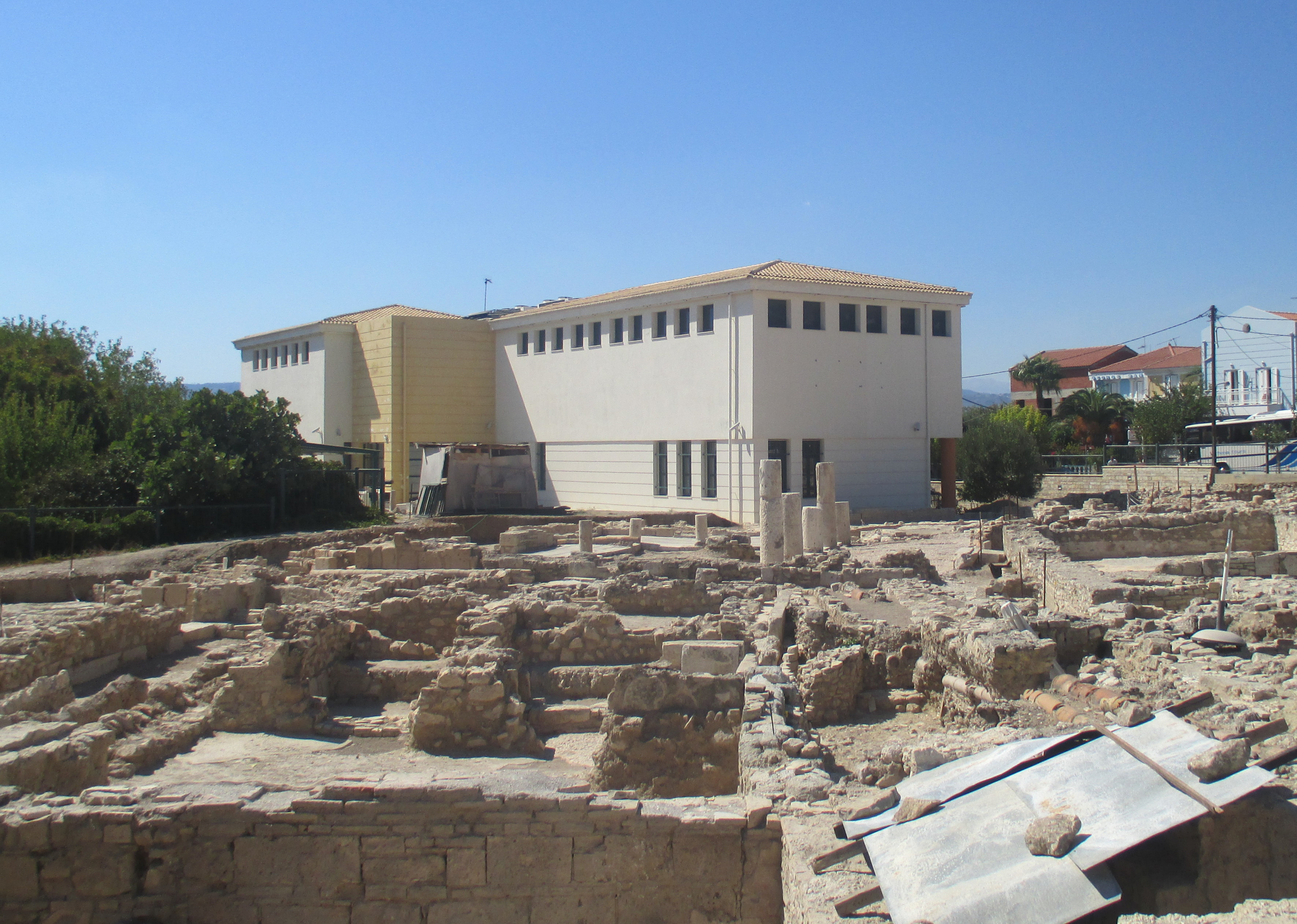 Archaeological Museum of Pythagoreio, Samos, Greece.